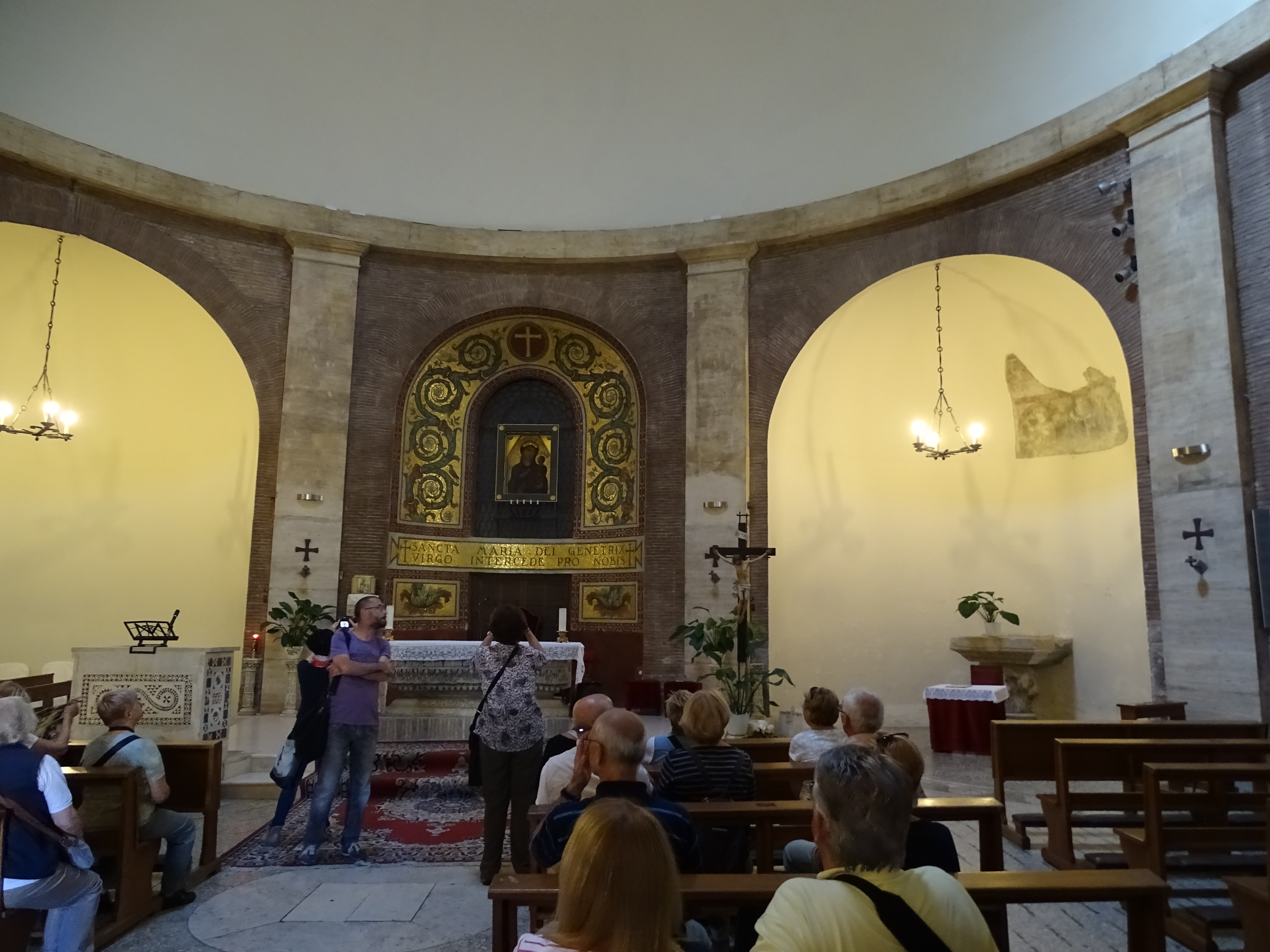 Church S. Maria della Rotonda in Albano Laziale, Italy